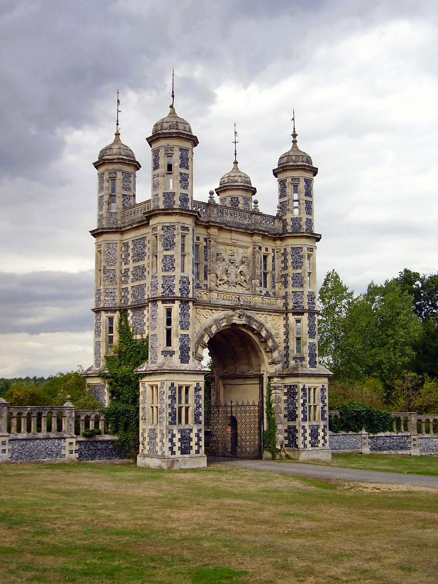 Eastwell Towers, Boughton Aluph, Kent, seen from the south